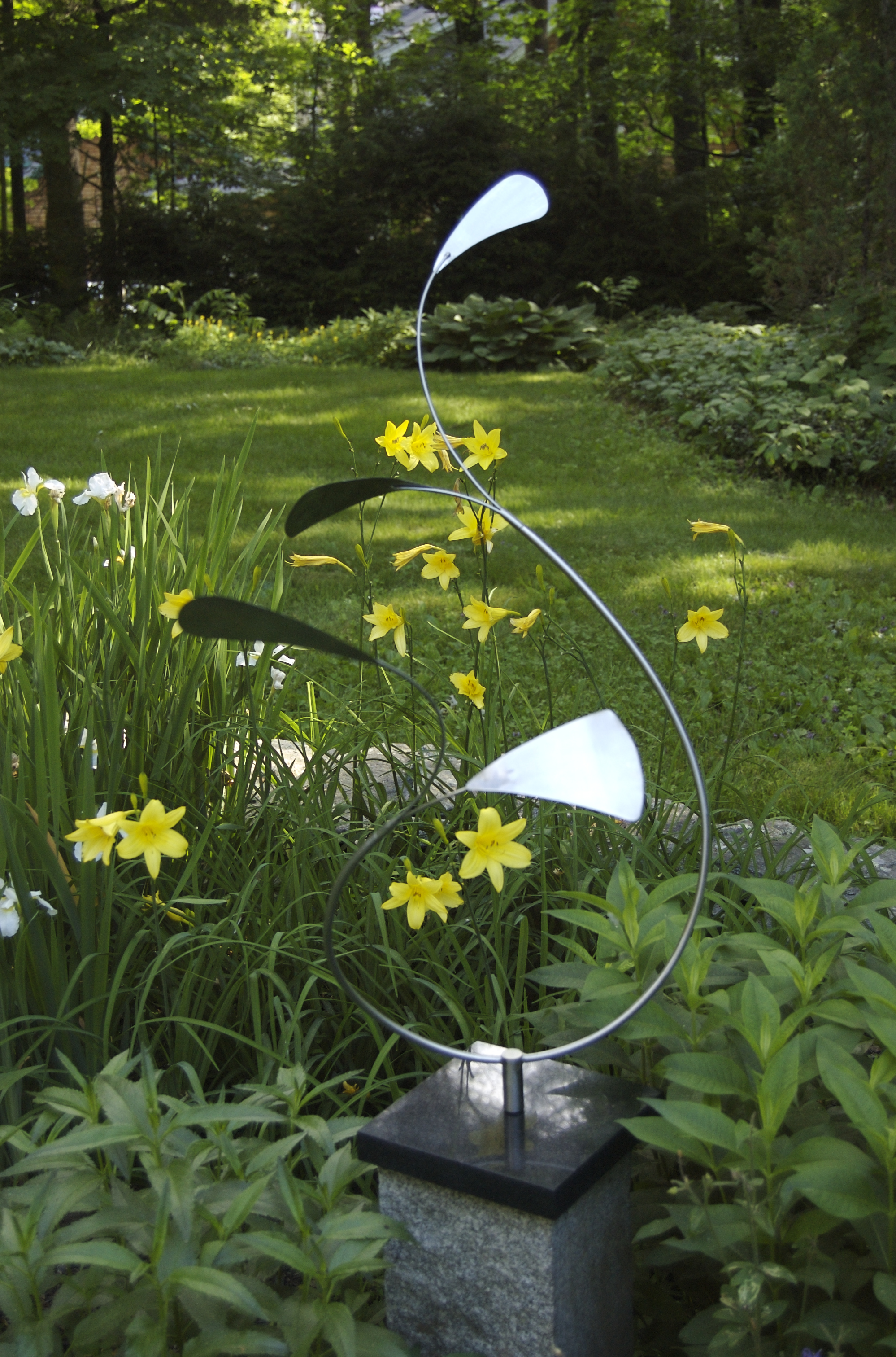 9 Wind Orchid by George Sherwood; 36" x 36" x 38"; stainless steel